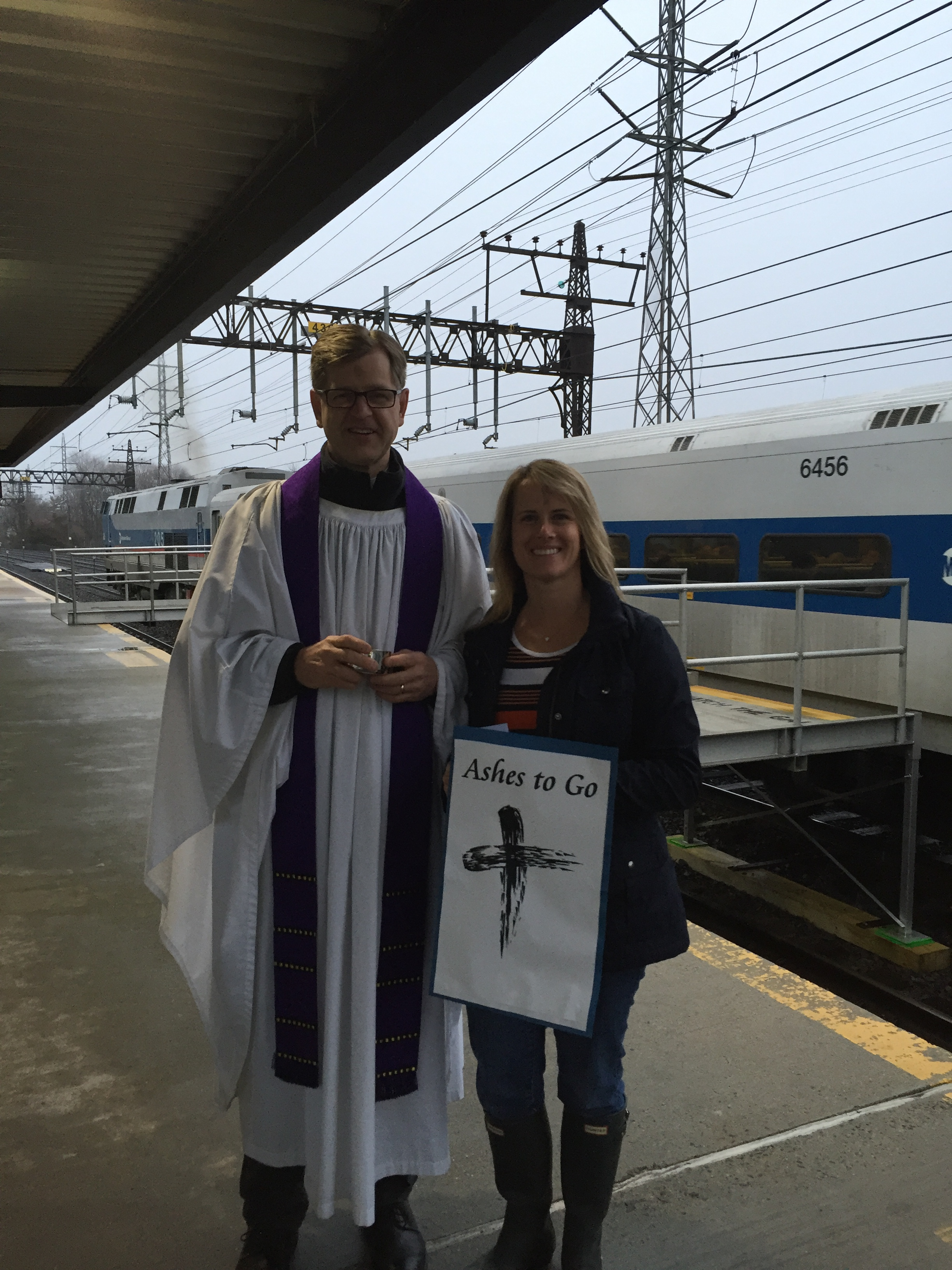 The image depicts Saint Luke's Episcopal Church's Ashes to Go station on Ash Wednesday in 2017 that was positioned at the Noroton Heights Train Station in Connecticut. Rev. David Anderson is pictured ready to distribute ashes to commuters in Darien, Connecticut. This picture was clicked on March 1, 2017.